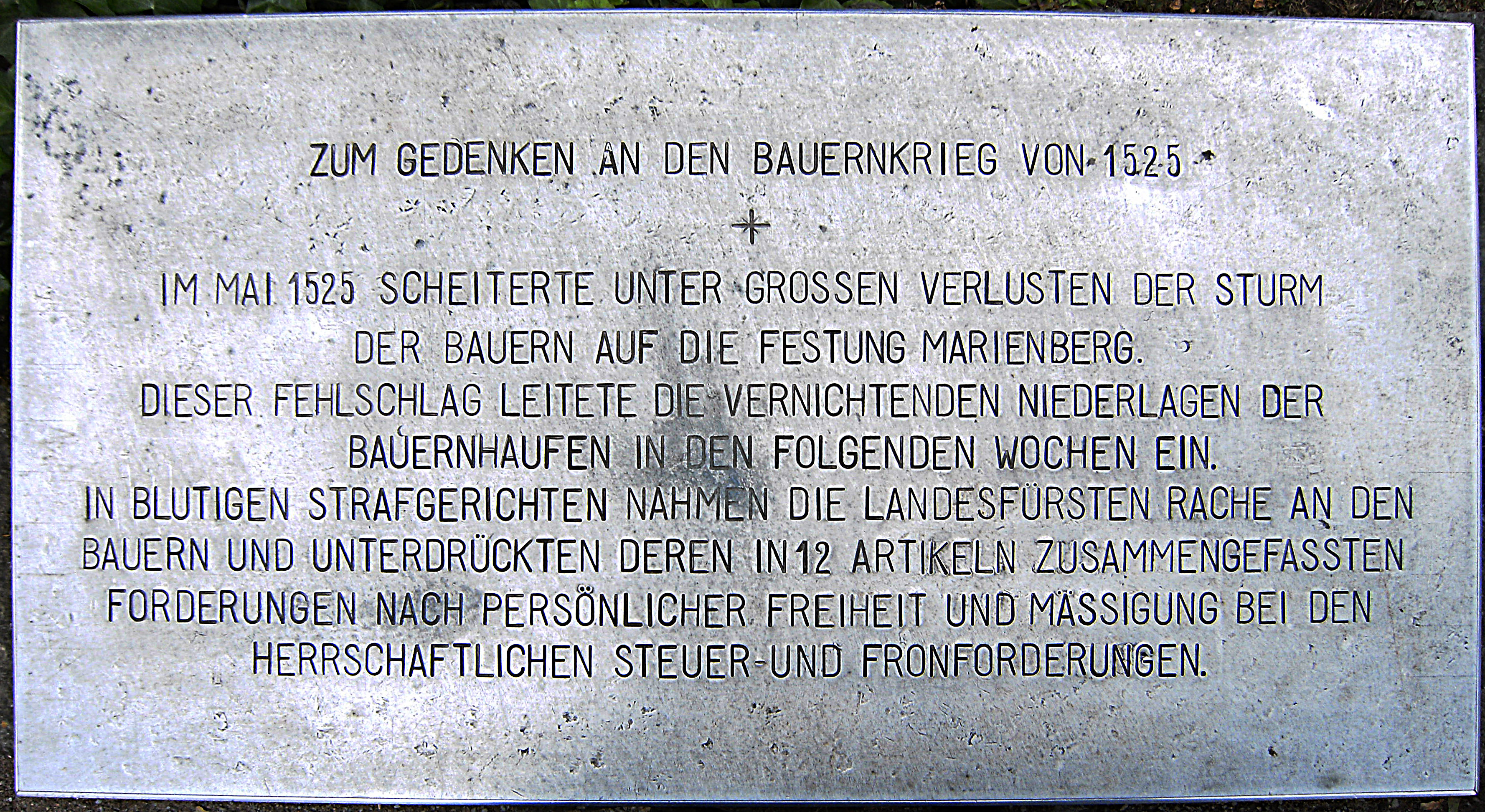 Festung Marienberg (fortress Marienberg), Würzburg, Germany: Plaque remembering the Peasants' War and describing the peasants' War Monument at the foot of the fortification.